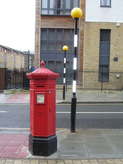 Victorian pillar box and Belisha beacons, St Pancras Way Two familiar items of street furniture in the British urban landscape.